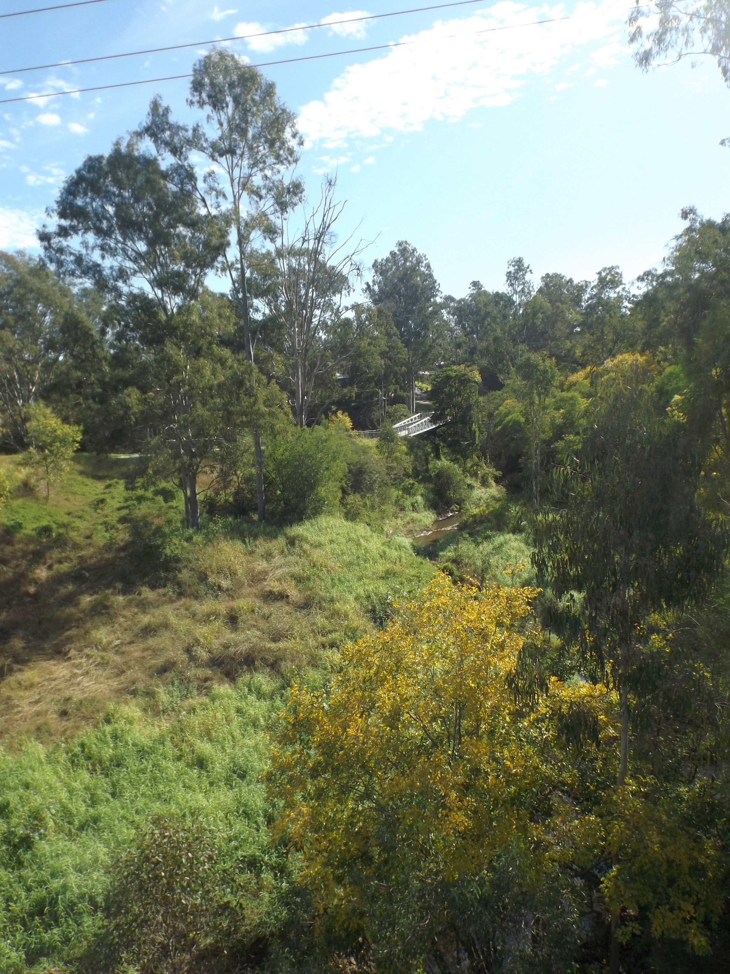 Photo of Mihi Creek Complex Brassall, Ipswich, Queensland, Australia. The archaeological site is listed on the Queensland Heritage Register under Mihi Creek heritage site